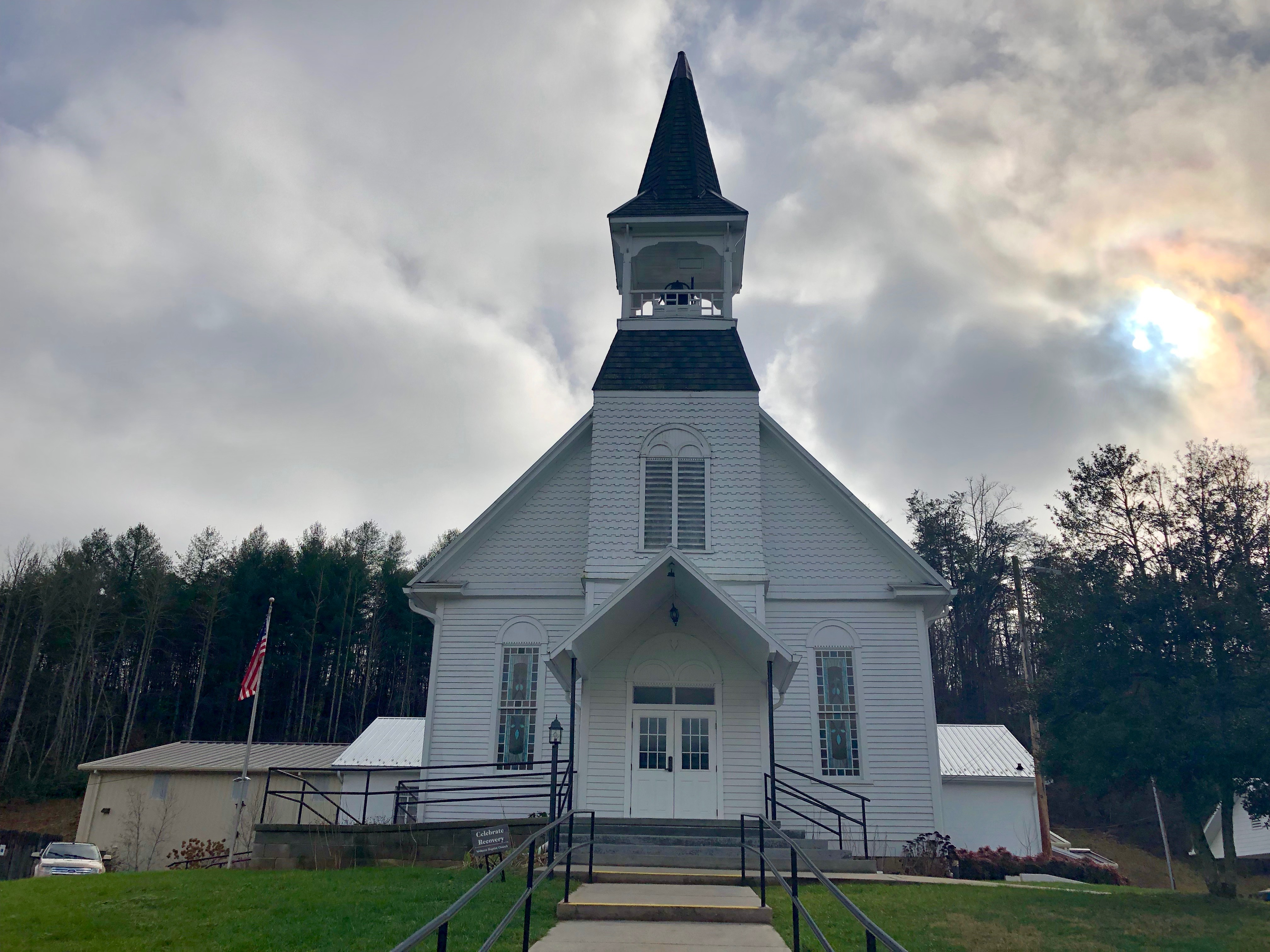 This is the Webster Baptist Church, located along North Carolina Highway 116 and the Tuckaseigee River in the town of Webster, North Carolina. Constructed in 1900, the Late Vernacular Victorian-style Church terminates the view coming across the bridge from the rest of town, and features an unaltered interior floor plan and Queen Anne-style details and windows that ornament and decorate the wood-frame structure. The church was built around the time the town began its decline, which has preserved many Victorian-era structures that once had similar examples in nearby towns, which have been lost to time and redevelopment. The church, which received additions and renovations in 1953 and 1998, is similar to many that once stood in other areas of the county, but have since been replaced with newer, larger, more modern structures. Today, the Webster Baptist Church continues to grace one of the most prominent sites in town, and was listed on the National Register of Historic Places in 1989.